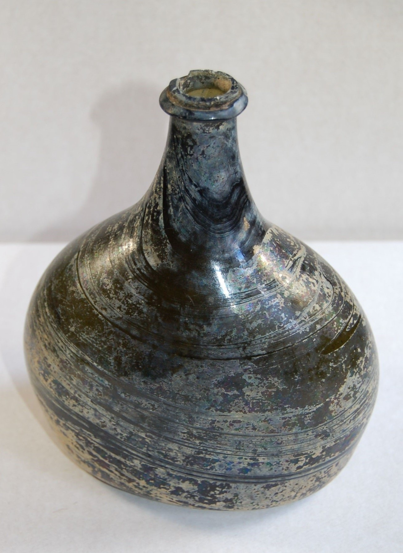 Onion-shaped glass wine bottle dating to 1700's AD. (This version was cropped from original.)